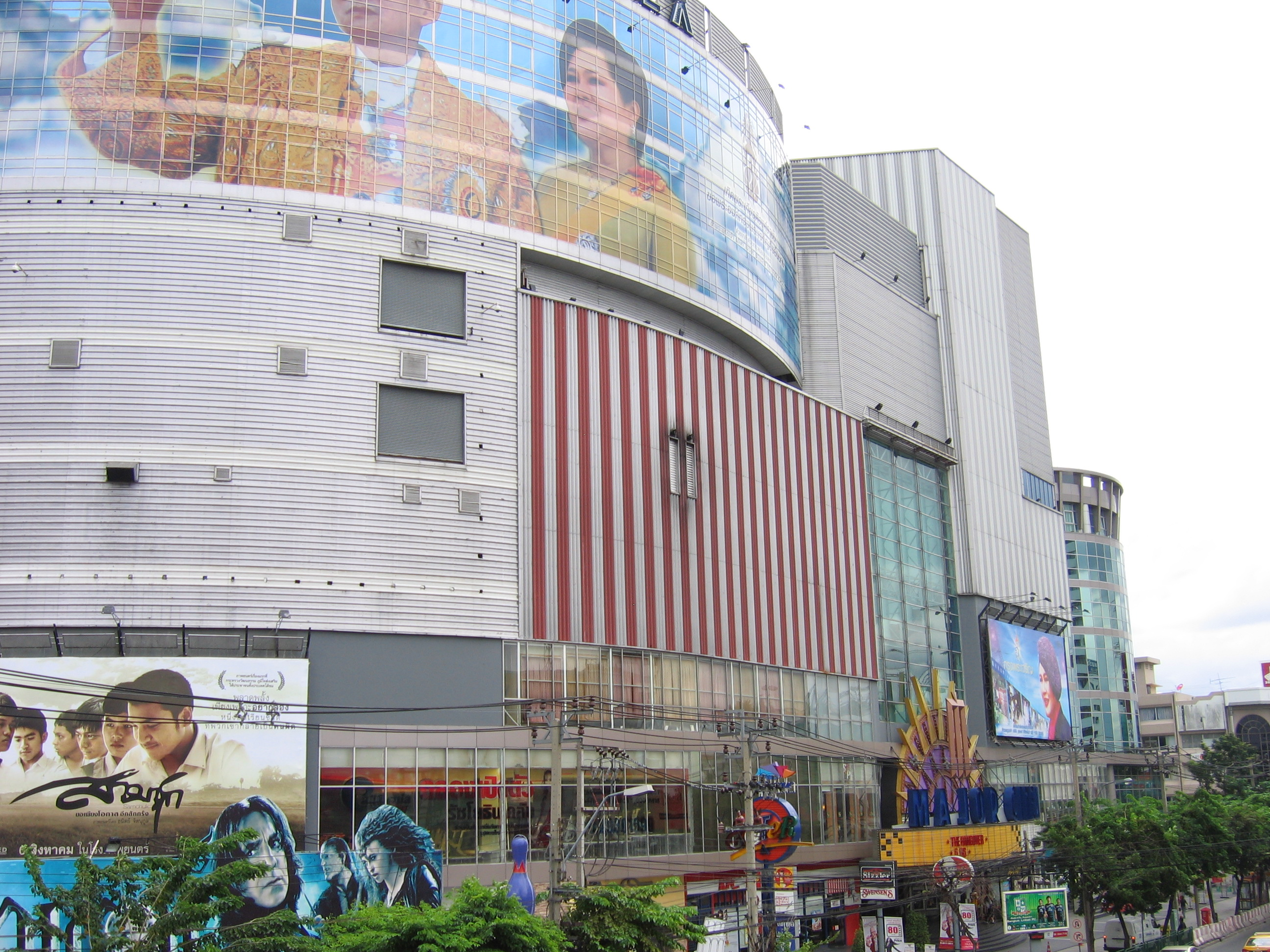 Major Cineplex Ratchayothin in July 2009.